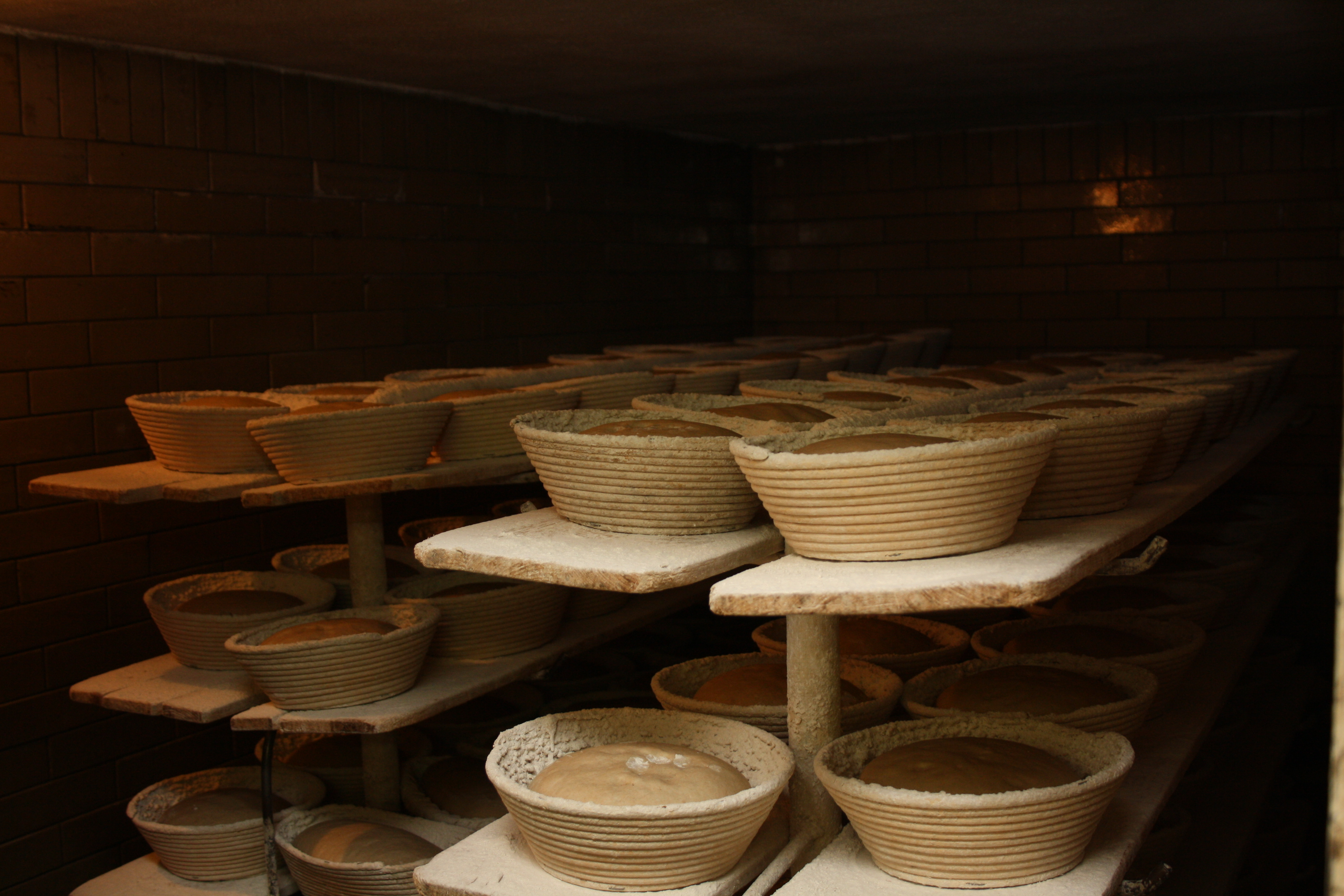 Production process of bread, Czech Republic This photograph was taken with a DSLR from WMCZ's Camera grant. This picture was taken and/or got within the scope of the 'Acquiring scientific and specialized pictures' grant.